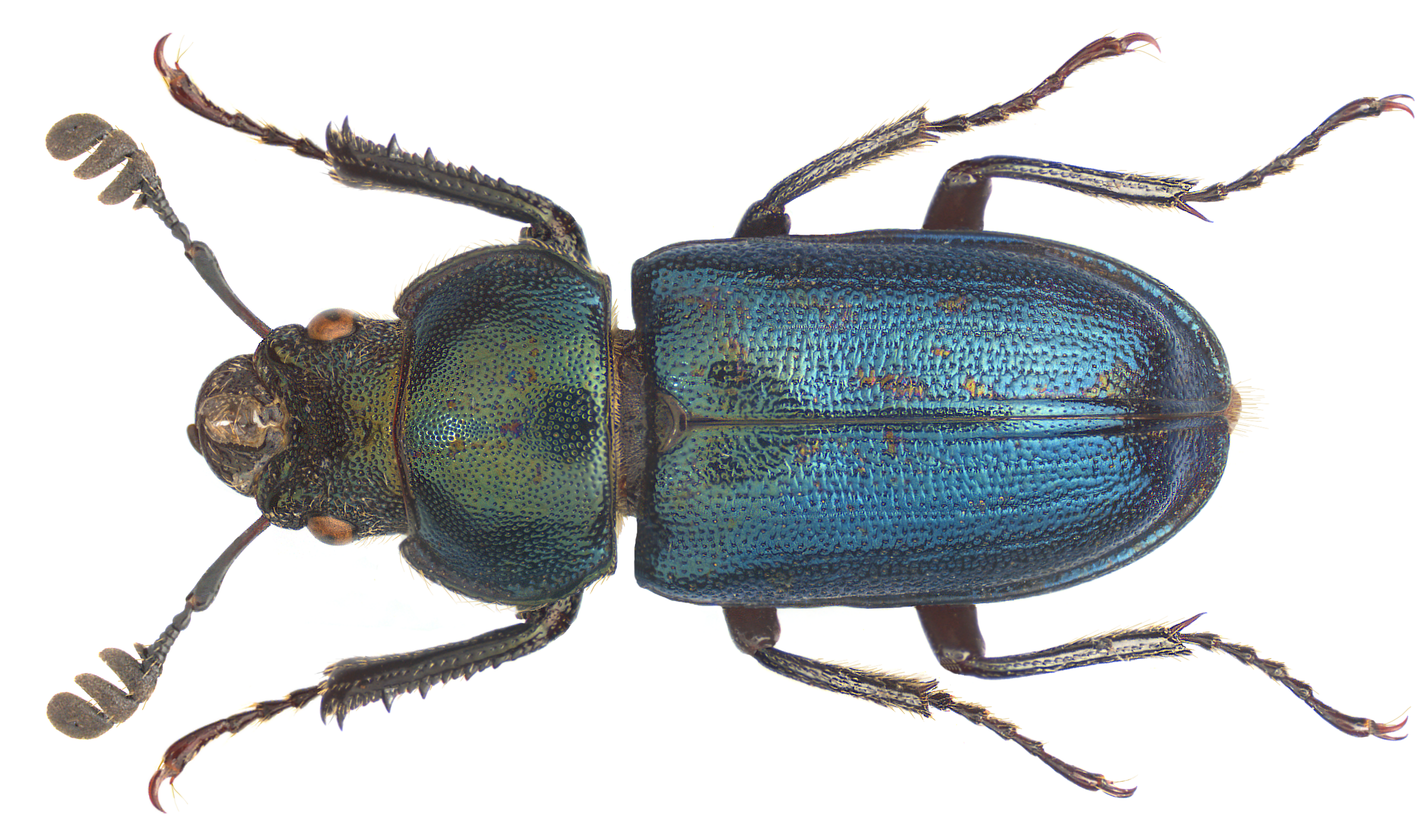 Family: Lucanidae Size: 11,8 mm (9-13 mm) Origin: Europa Ecology: Development in rotten wood of deciduous trees Location: Germany, Bavaria, Upper Franconia, Weismain, Wunkendorf leg.det. U.Schmidt, 6.V.1995 Photo: U.Schmidt, 2013